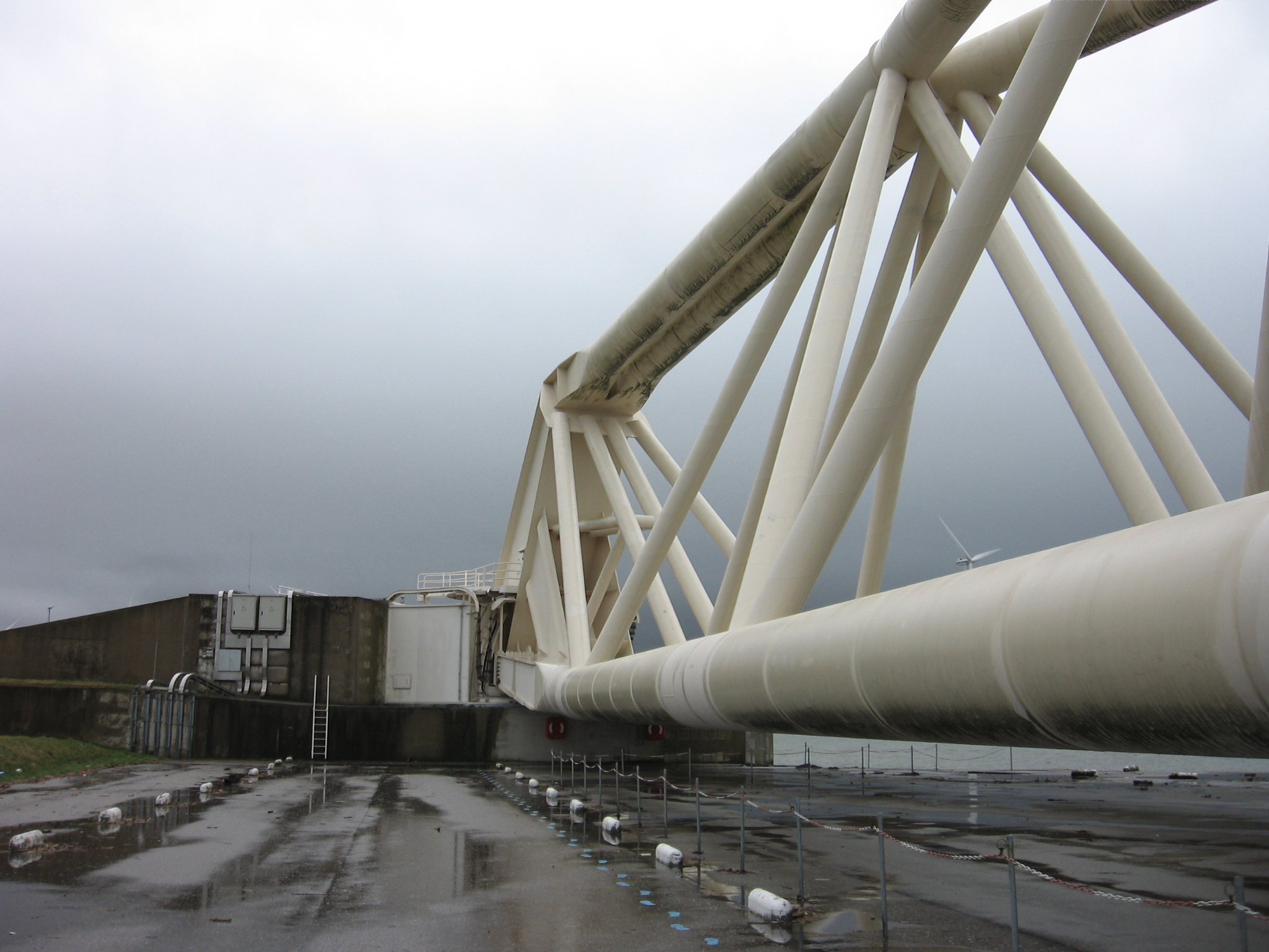 close up Maeslantkering